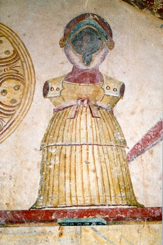 Paintings of Hellenistic-era military armor, arms, and gear from the Tomb of Lyson and Kallikles in ancient Mieza (modern-day Lefkadia), Imathia, Central Macedonia, Greece, dated 2nd century BC. For more information on this tomb, visit the Municipality of Naoussa webpage entitled "The Macedonian Tomb of Lyson and Kallikles".